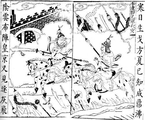 A Qing Dynasty illustration of when Li Jue and Guo Si attacked Chang'an.